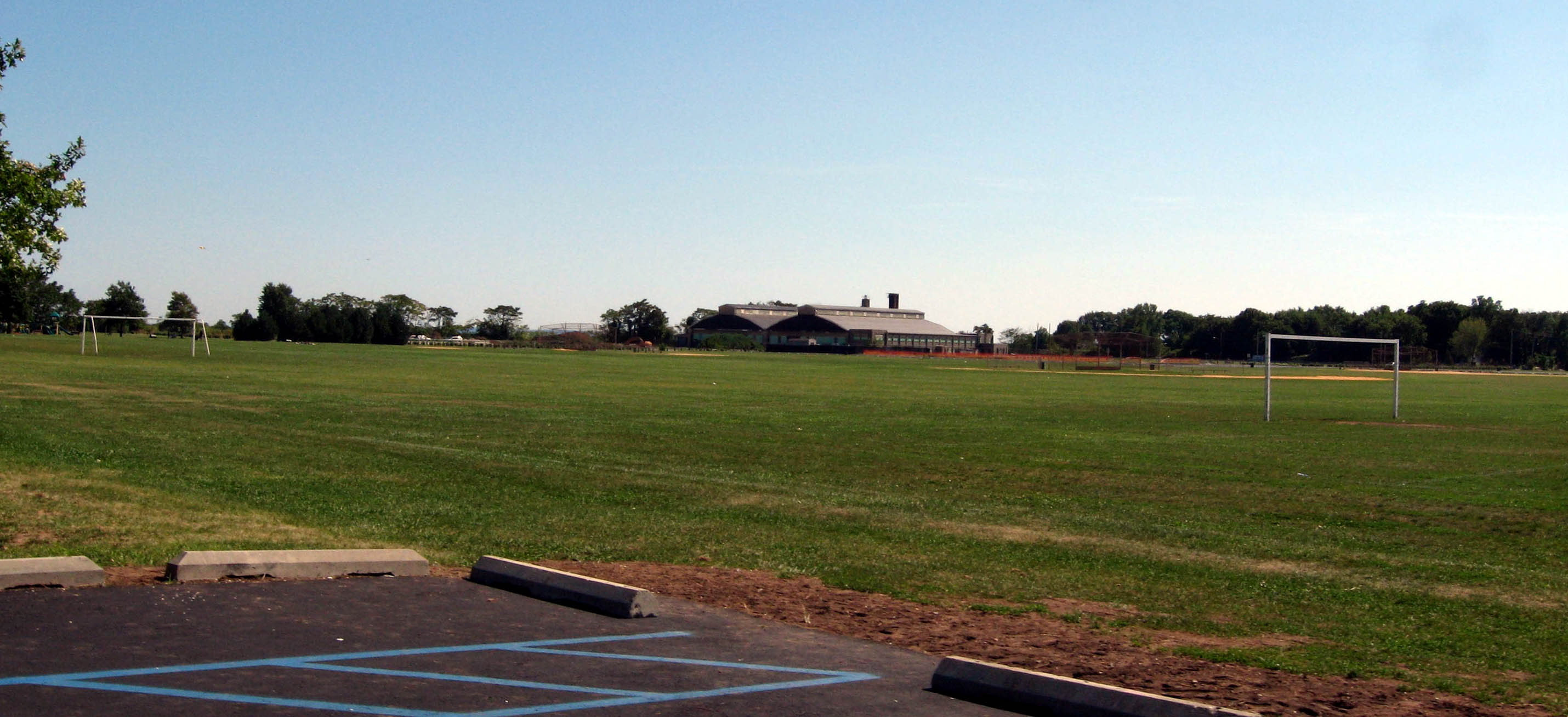 Looking south on Miller Field on Staten Island on a sunny midday